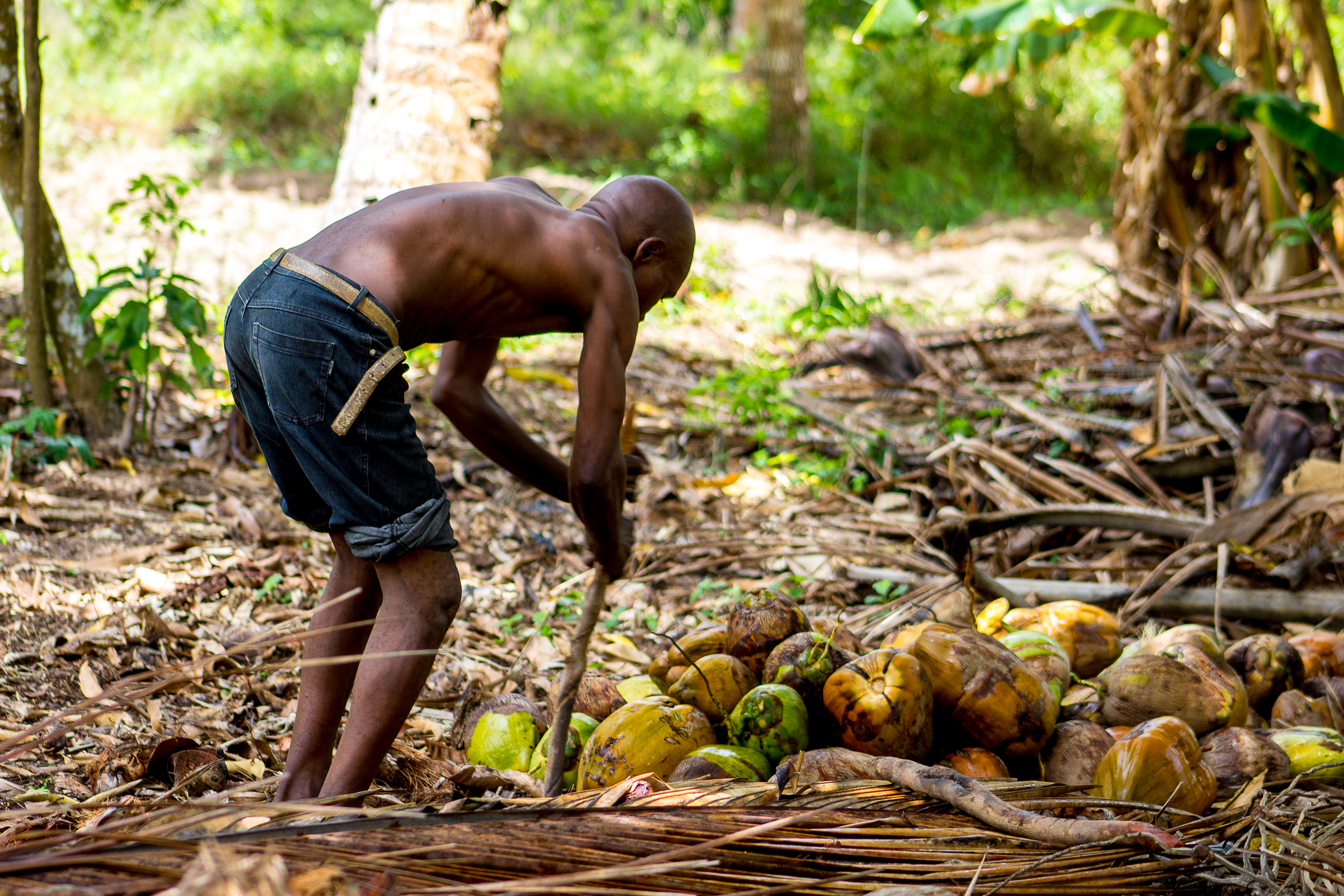 Coconut harvesting in Mkuranga, Tanzania This is an image of Cultural Fashion or Adornment from Tanzania